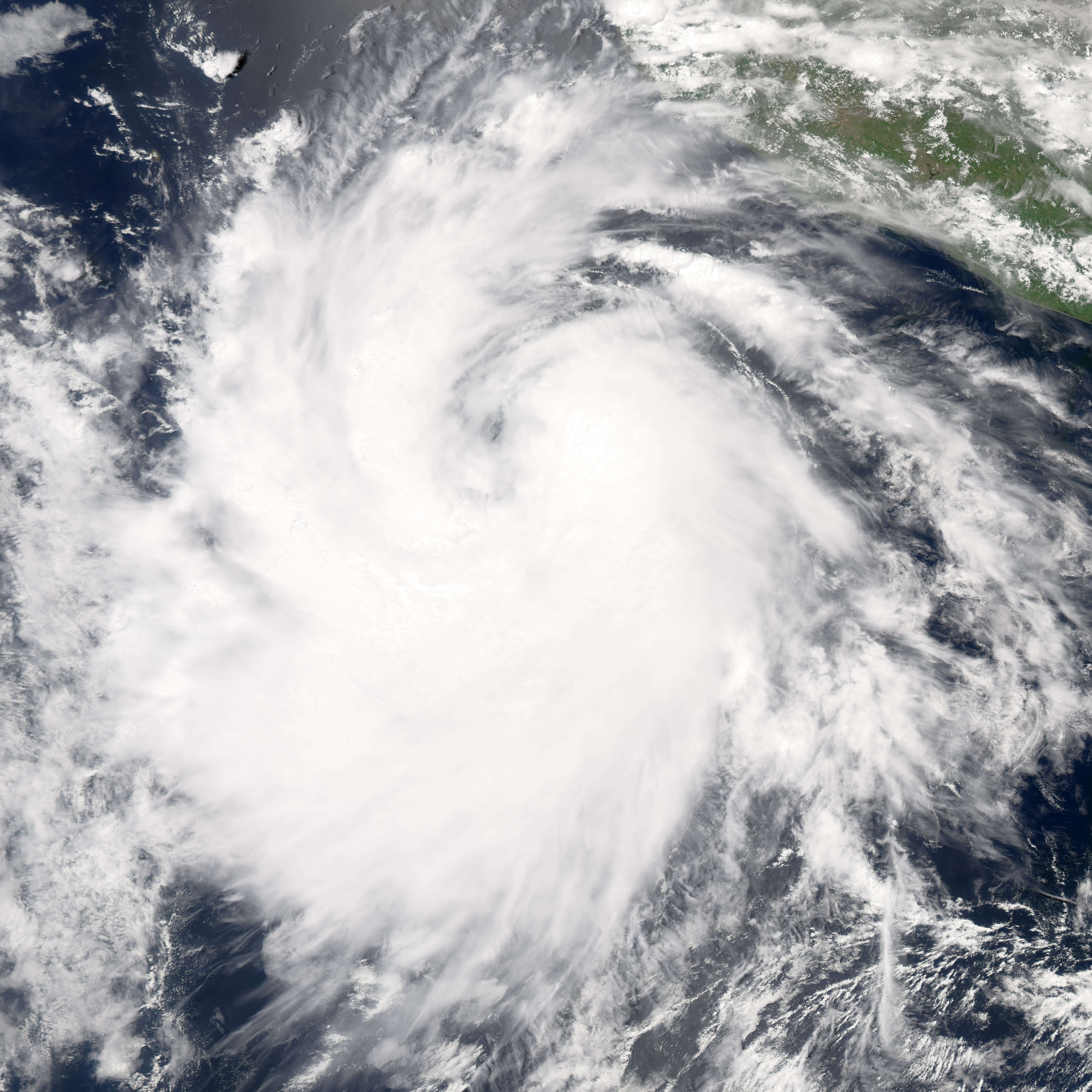 Hurricane Carlotta formed in the eastern Pacific on July 11, 2006, off the Pacific coast of Mexico. The tropical depression gradually gathered power and size as it traveled northwest over the next several days, roughly parallel to, but well away from, the Mexican coast. The tropical depression was upgraded to tropical storm status and given the name Carlotta on July 12, and the storm was upgraded again to hurricane status the morning of the next day. Forecasts as of July 13 predicted that Carlotta would continue to intensify and track west to northwest without making landfall or posing any significant threat to land. The track of the hurricane roughly mimics that of Hurricane Bud nearby, which formed a day earlier and was also tracking west out to sea. This photo-like image was acquired by the Moderate Resolution Imaging Spectroradiometer (MODIS) on the Aqua satellite on July 12, 2006, at 2:20 p.m. local time (20:20 UTC). The tropical storm had a developing spiral structure in this image, hinting that its intensity was climbing towards the hurricane status it achieved some 12 hours later. Sustained winds in the storm system were estimated to be around 100 kilometers per hour (55 miles per hour) around the time the image was captured, according to the University of Hawaii’s Tropical Storm Information Center.